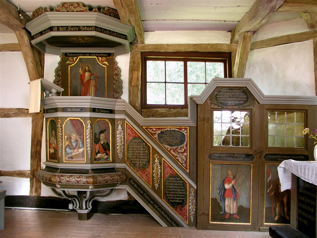 Church of Peckatel - pulpit -- Mecklenburg (Germany)